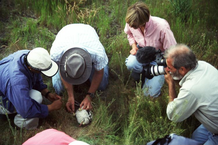 Transwiki approved by: User:Dmcdevit This image was copied from en. The original description was: Banding of Ferruginous hawk chicks